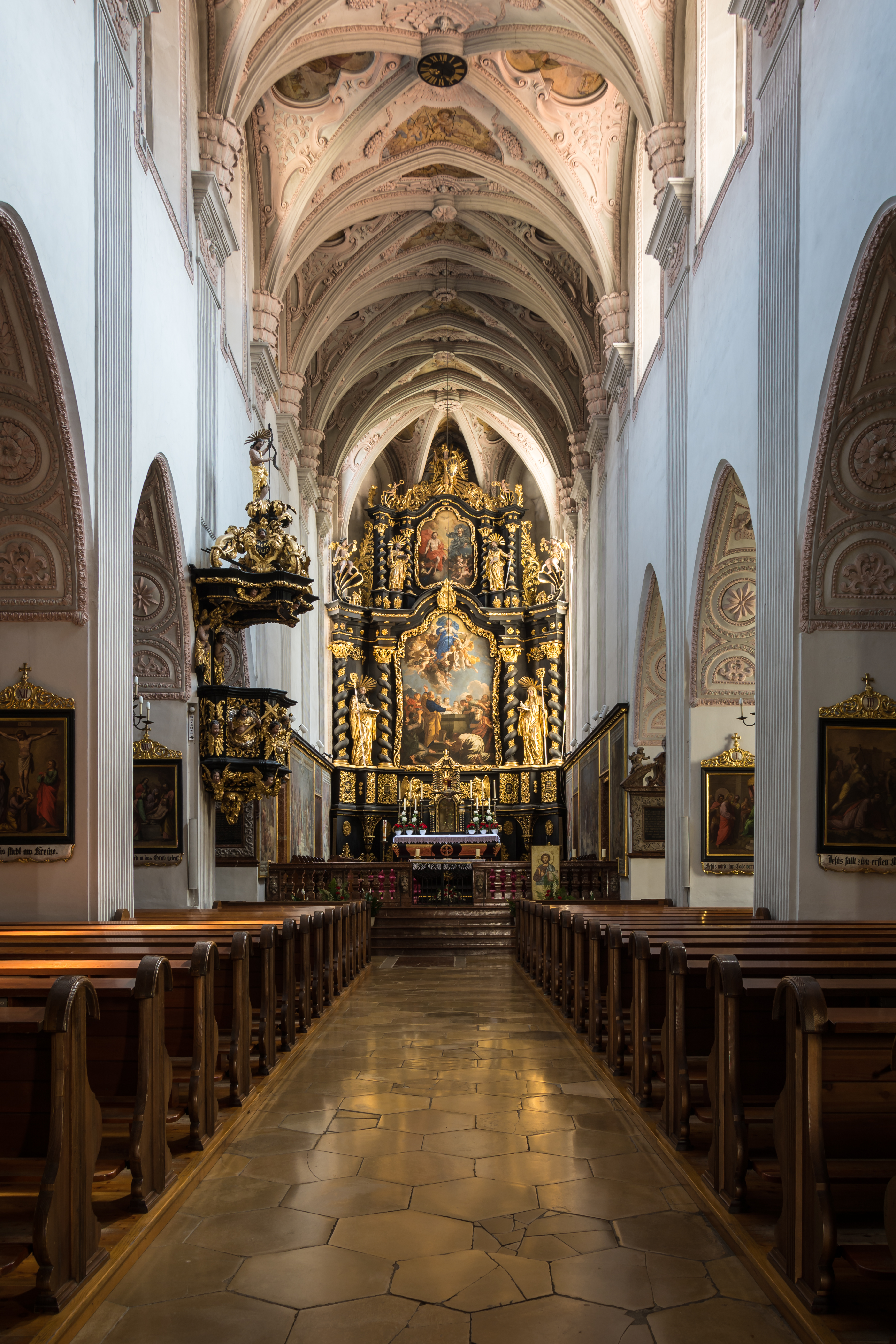 Interior of Seitenstetten Abbey Church, Lower Austria